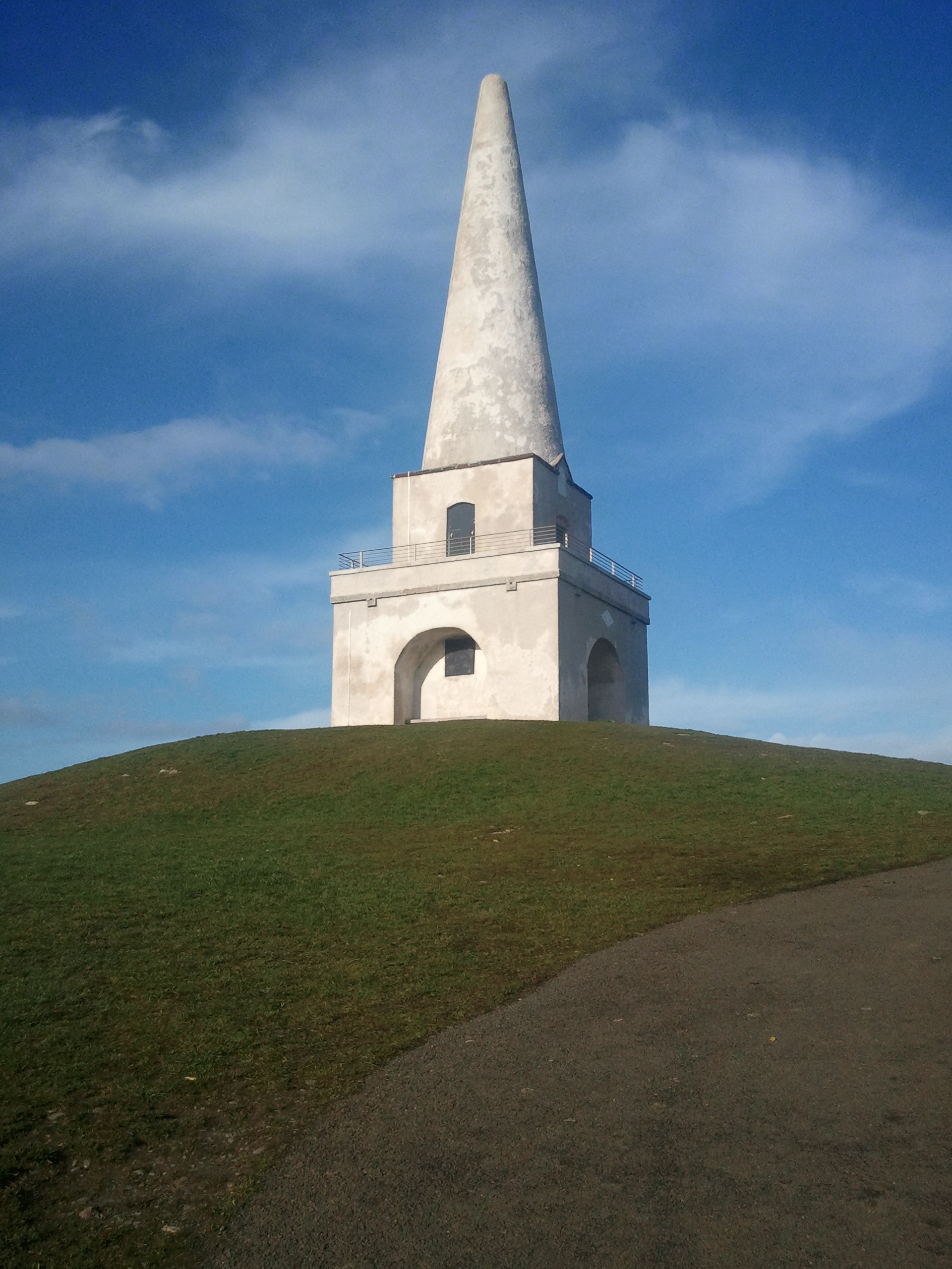 Obelisk on the top of Killiney Hill in Ireland, south of Dublin.